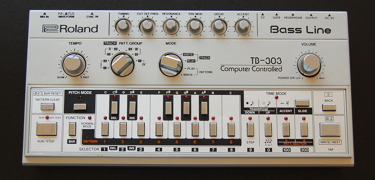 TB303 front view